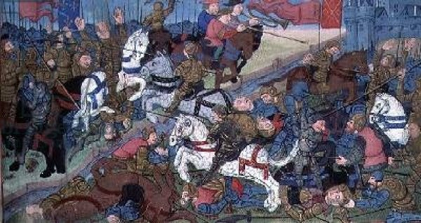 Ms 869/522 fol.86v War Between Thierry II (587-613) King of Burgundy and Theodobert, his brother in 612 AD (vellum).